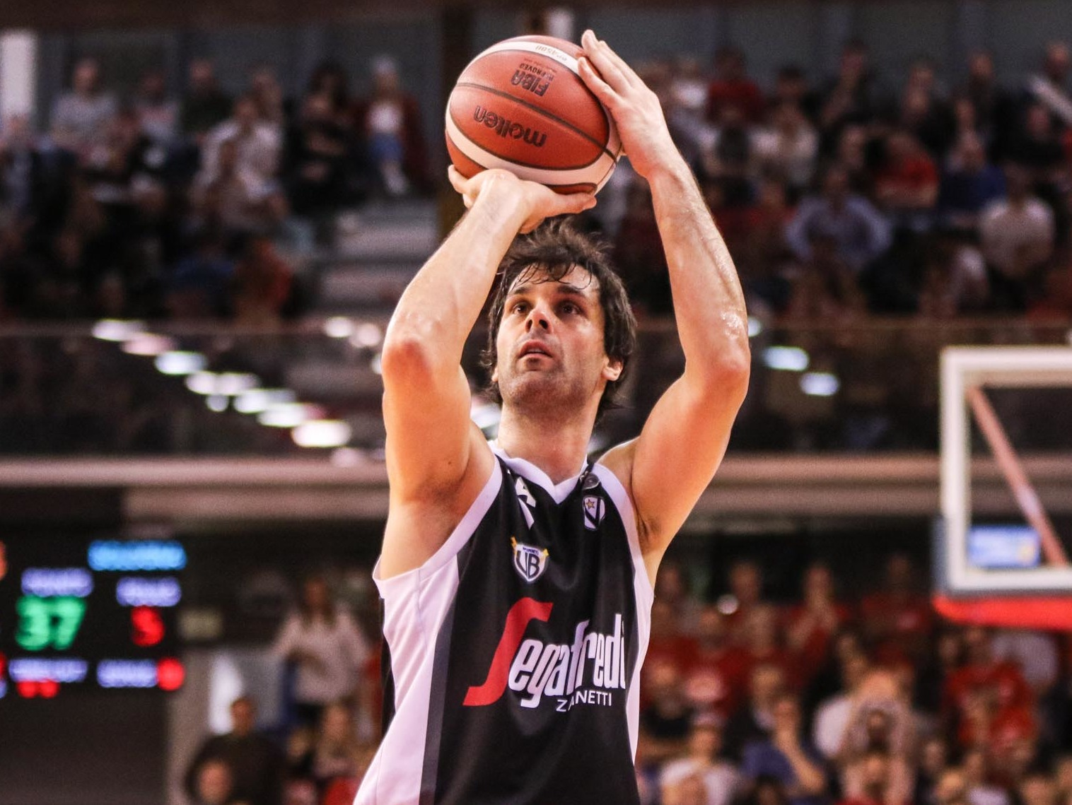 Milos Teodosic